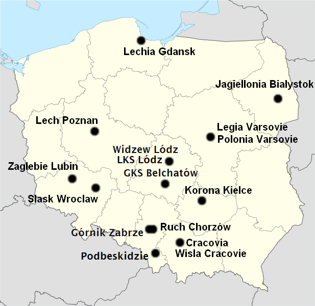 Ekstraklasa 2011/2012 map.